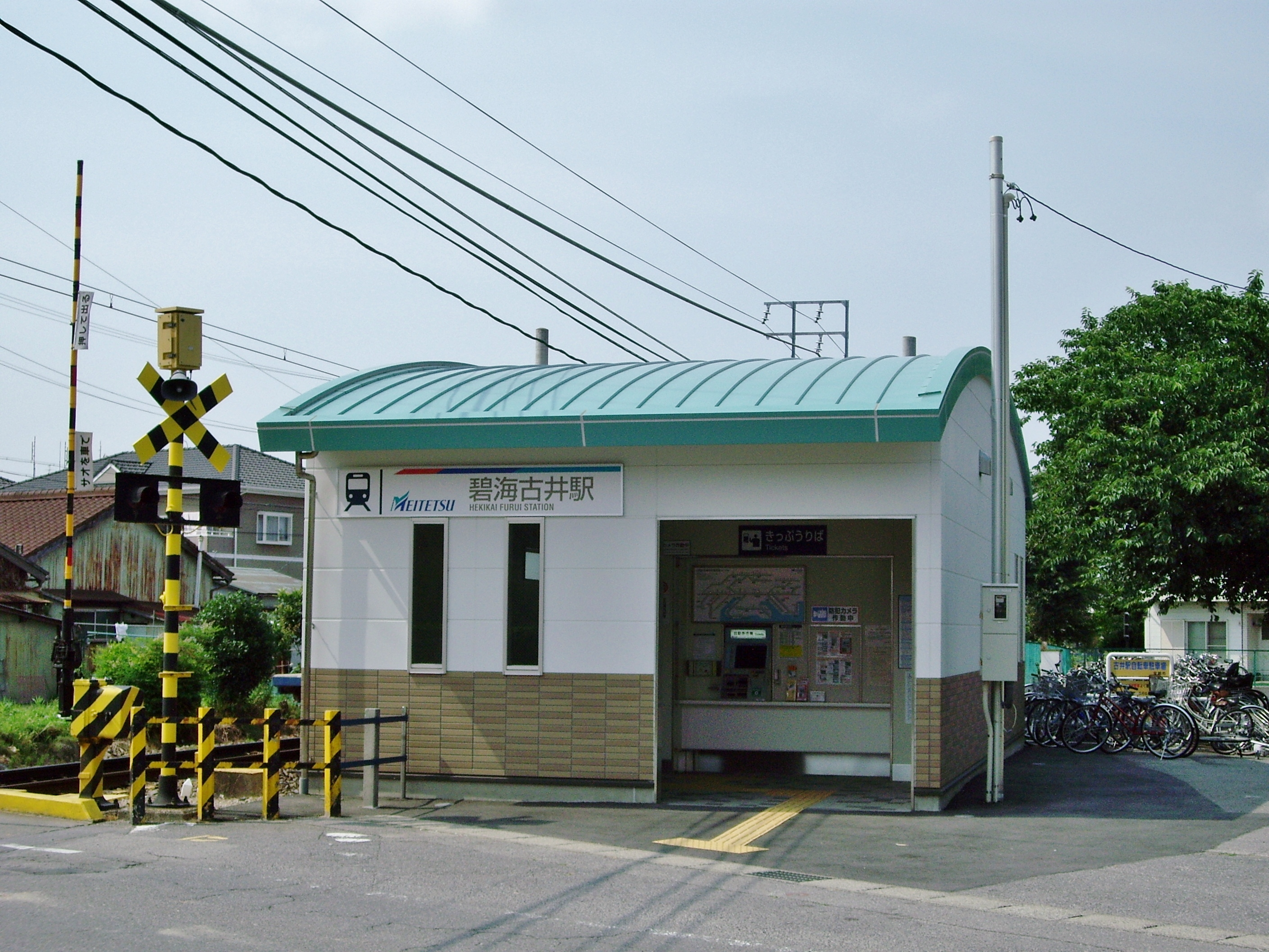 Hekikai Furui Station, in Anjo